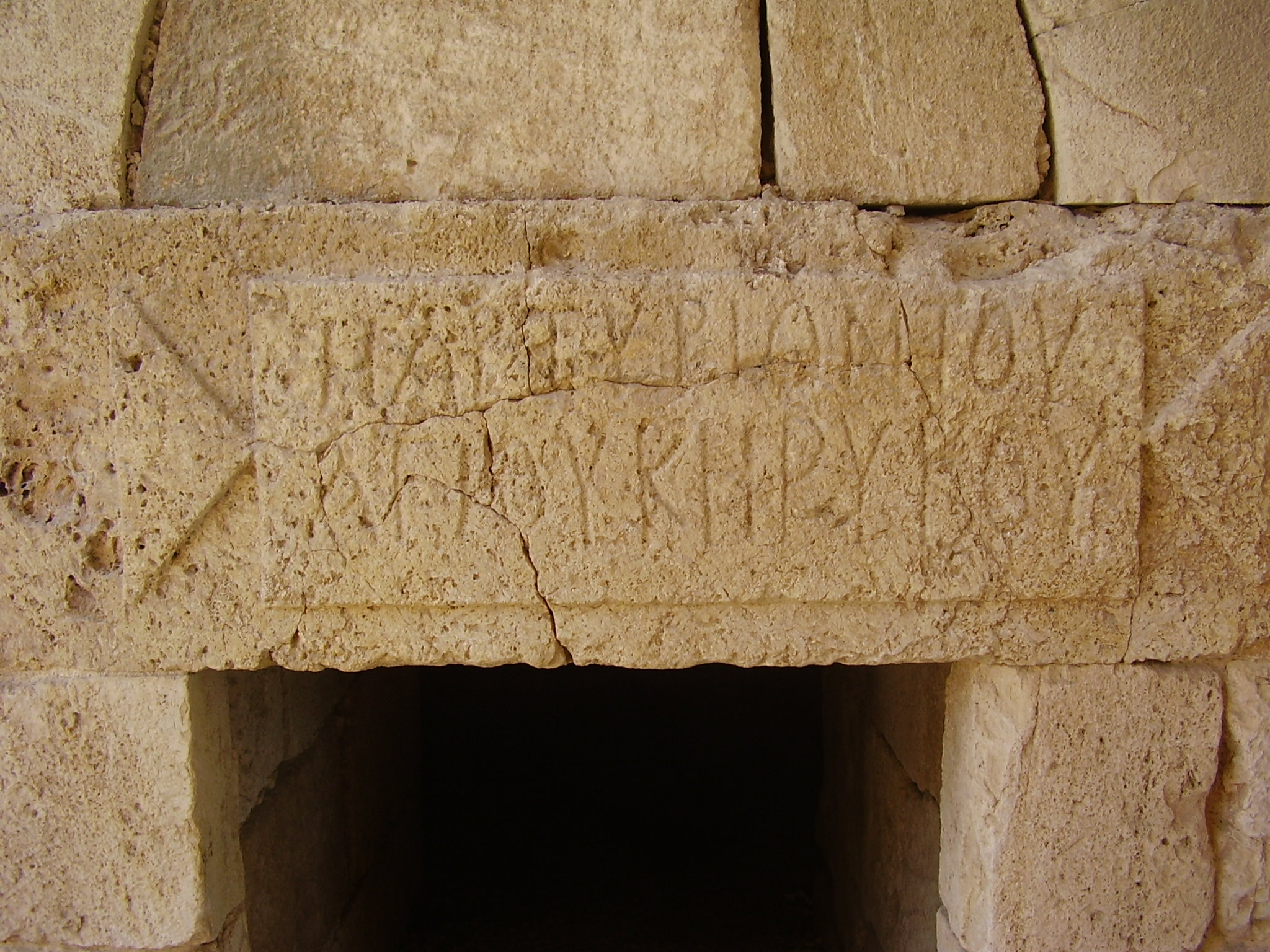 greek inscription in migdal afek castle "the martyrium of kyrikos" כתובת יוונית במגדל אפק:המרטיריון של הקדוש קיריקוס